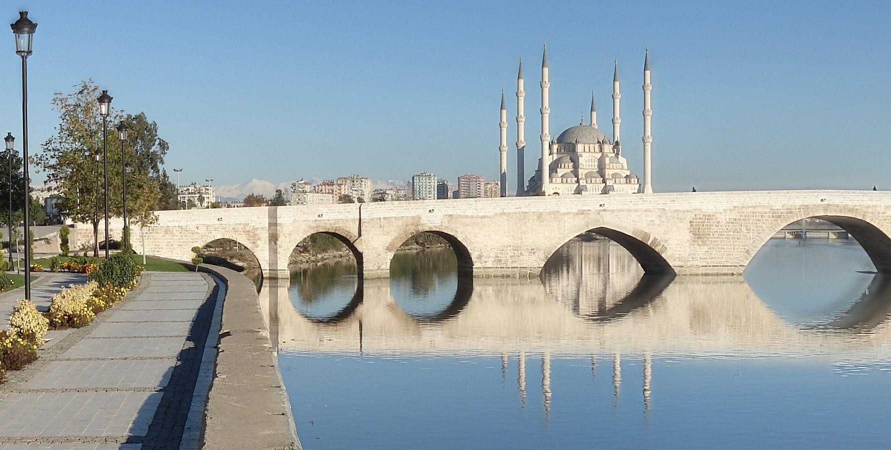 Roman Stone Bridge, Adana, Turkey